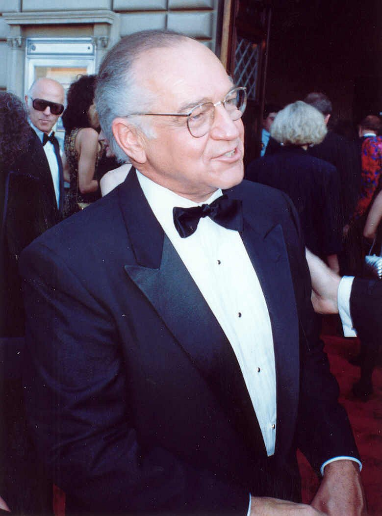 42nd Emmy Awards - Sept. 1990- Governor's Ball - Permission granted to copy, publish or post but please credit "photo by Alan Light" if you can